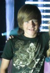 Lindee Link and Luke Benward in 2010.